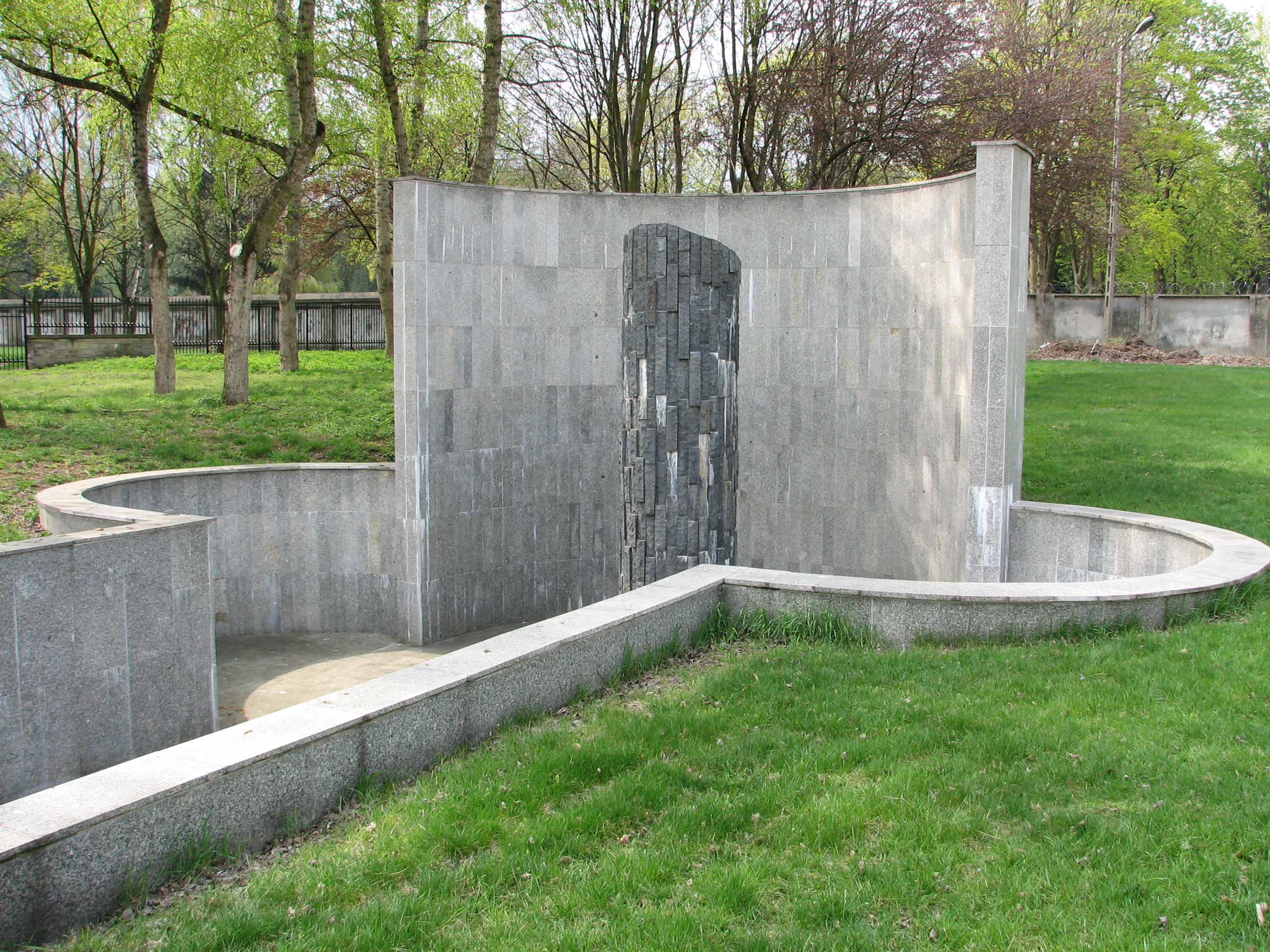 Monument of Jews and Poles Common Martyrdom in Warsaw, Gibalskiego street 21